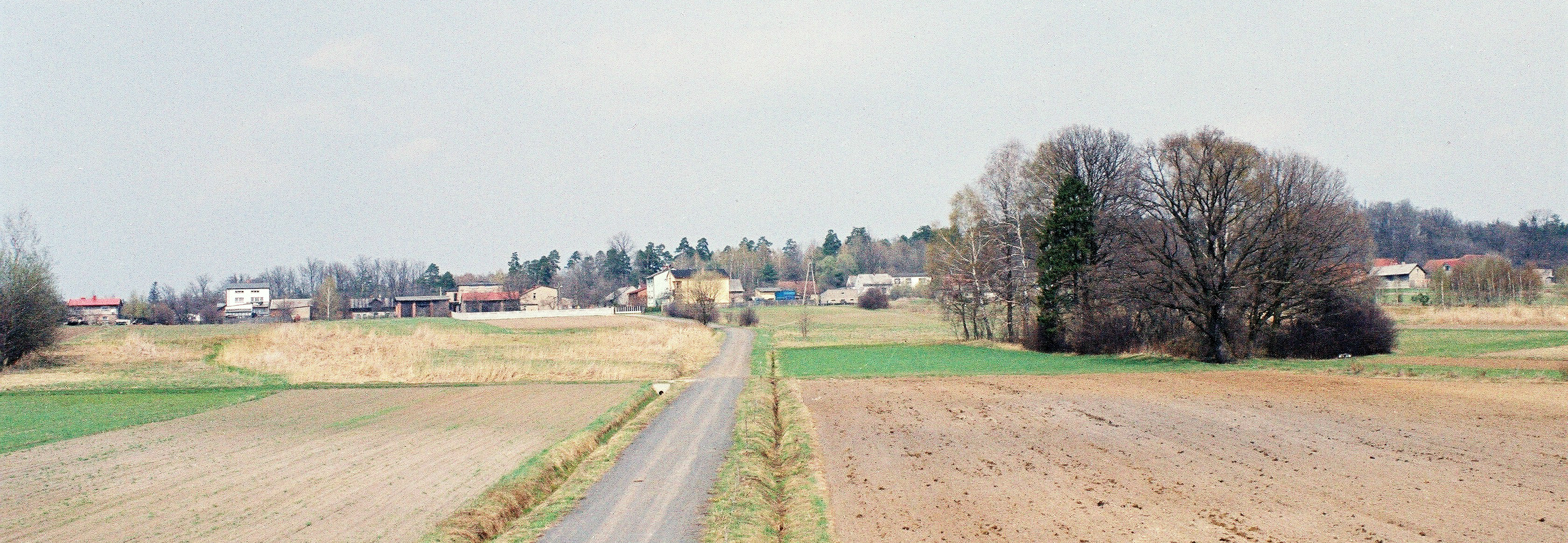 Zumpy - village in Gmina Boronów, Poland, panorama Author: Przykuta 22:33, 26 April 2006 (UTC) Date: April 2006